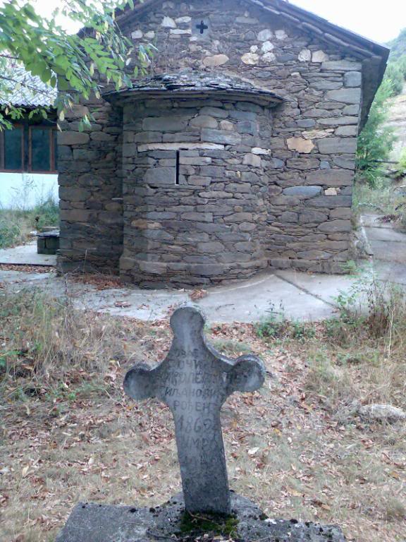 Village of Upper and Lower Manastirec, Poreche region, Republic Macedonia